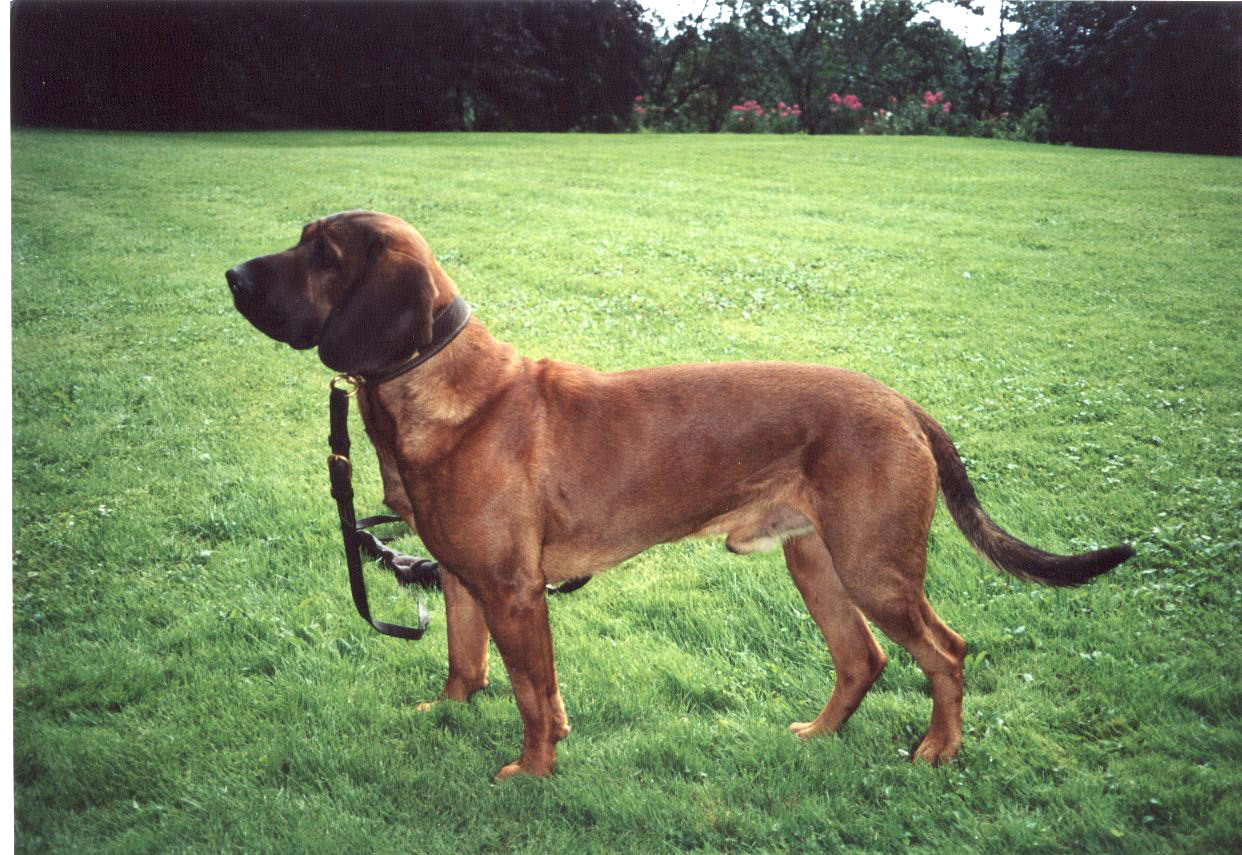 Mâle standard - Chien de rouge du Hanovre